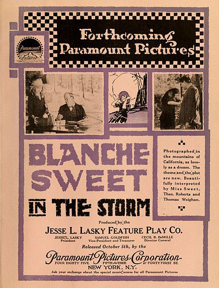 Advertisement in Moving Picture World for the film The Storm (1916).